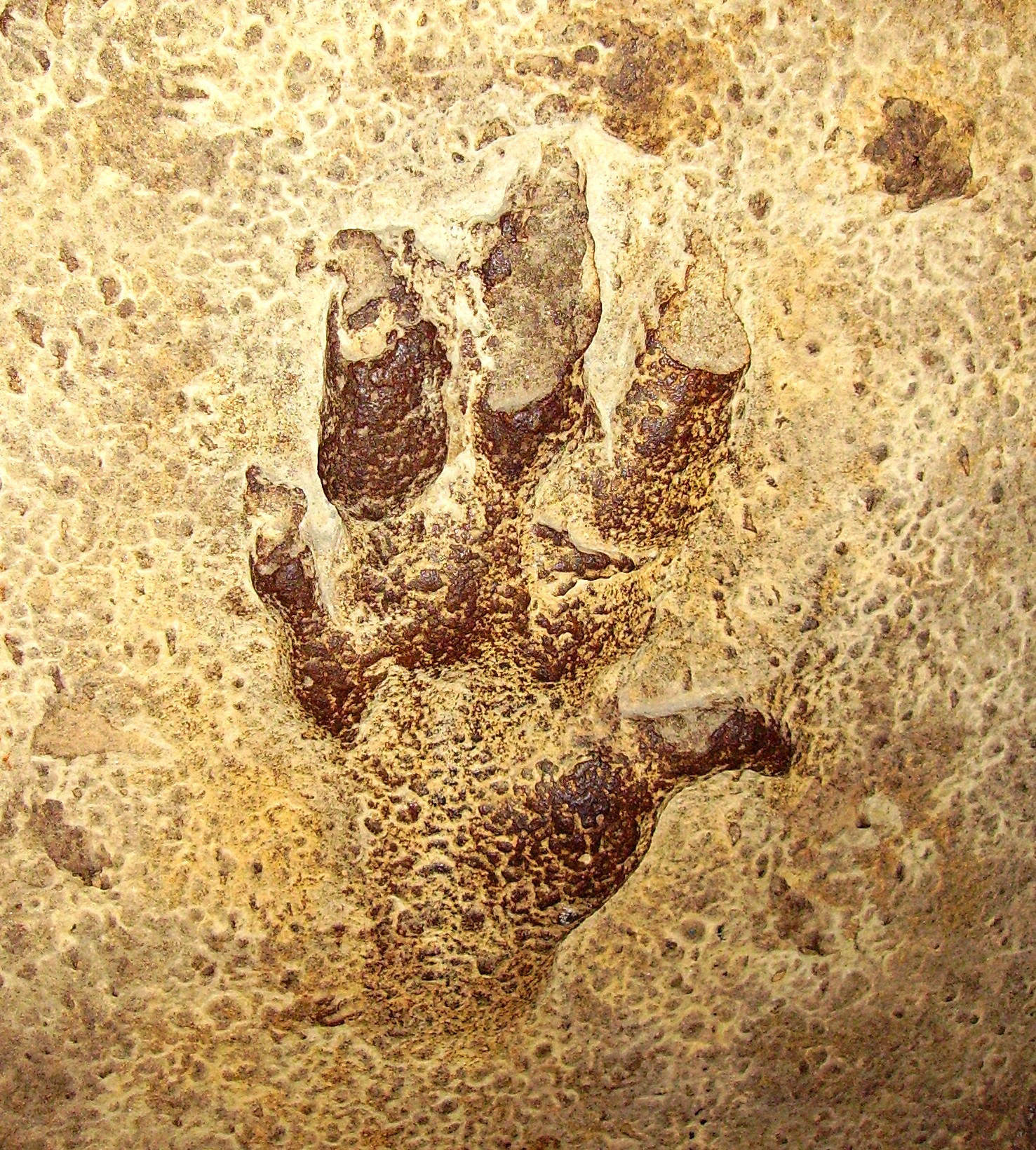 Lower Triassic fossil footprint (ichnite) of the ichnogenus Chirotherium, probably caused by an early archosaur, and first discovered 1833 in Hildburghausen (Thuringia, Germany). This specimen, however, ist from the Helsby Sandstone of the Storeton Quarry near Liverpool. Its species name is Chirotherium storetonense.[1]